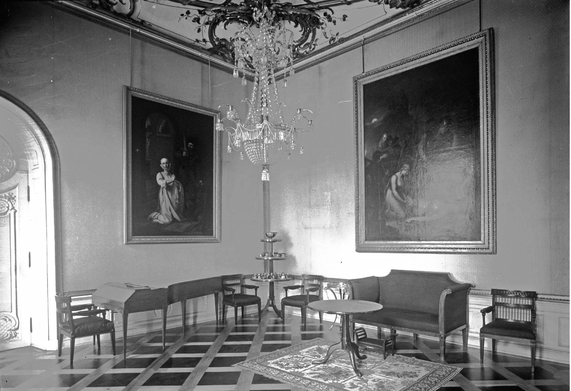 Interior of Stadtschloss Potsdam, Wohnung der Königin Luise, Blaues Zimmer